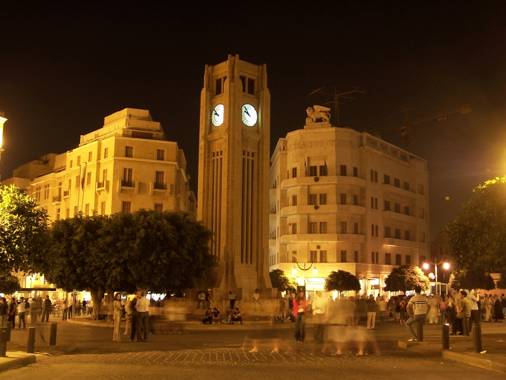 A view of Nejmeh Square in Downtown Beirut